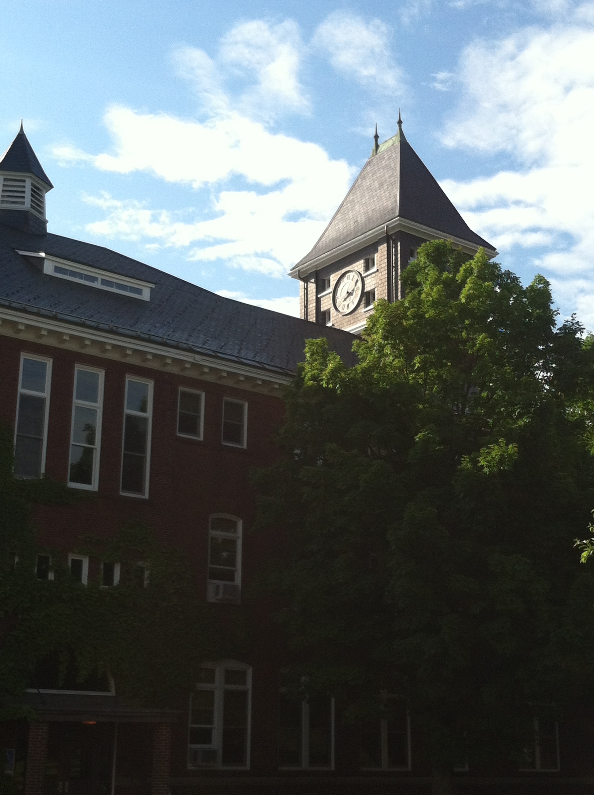 Rounds Hall and Clock Tower, Plymouth State University, Plymouth NH, 2013